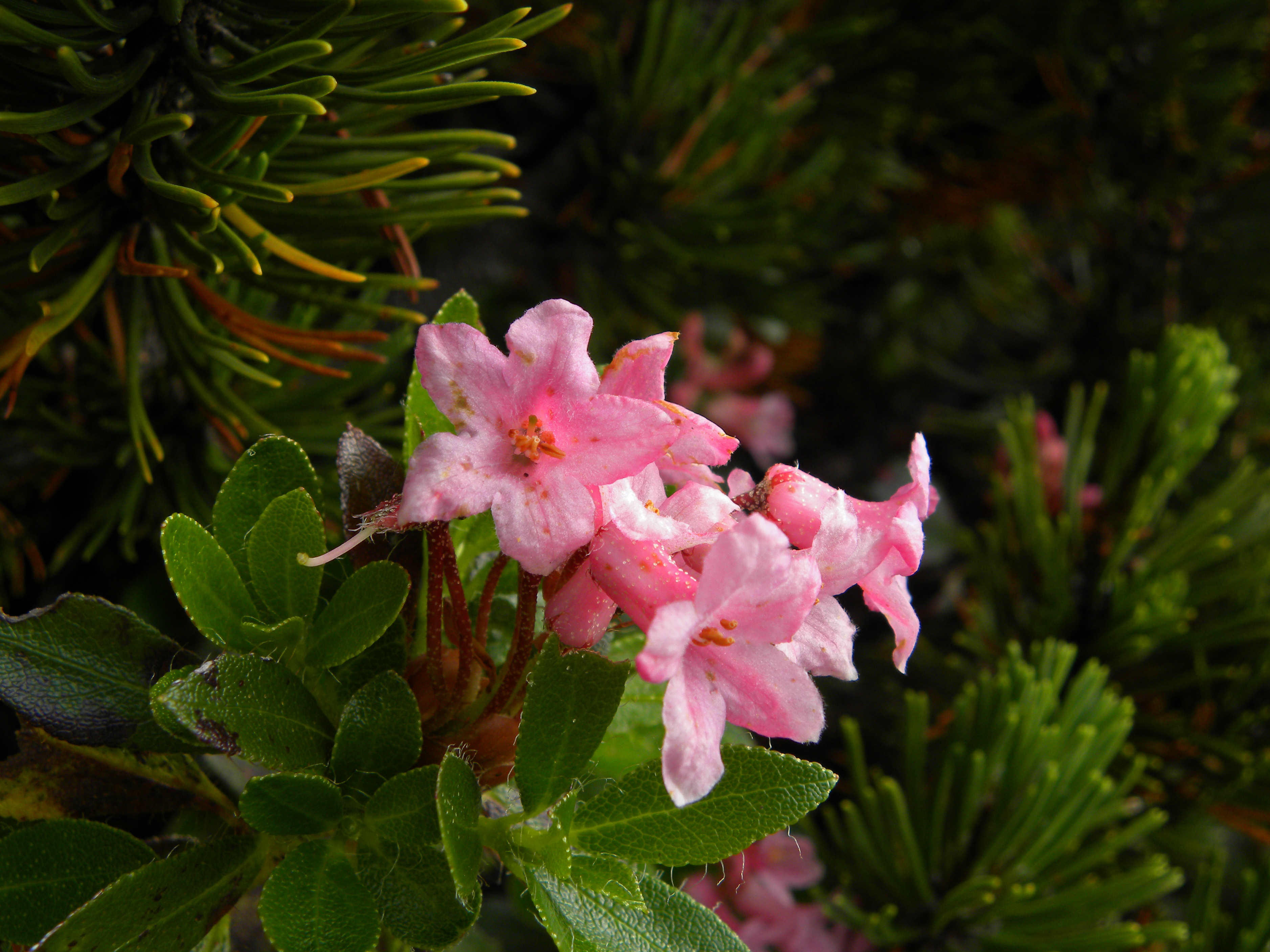 Rhododendron hirsutum - found at Hohe Veitsch in Austria